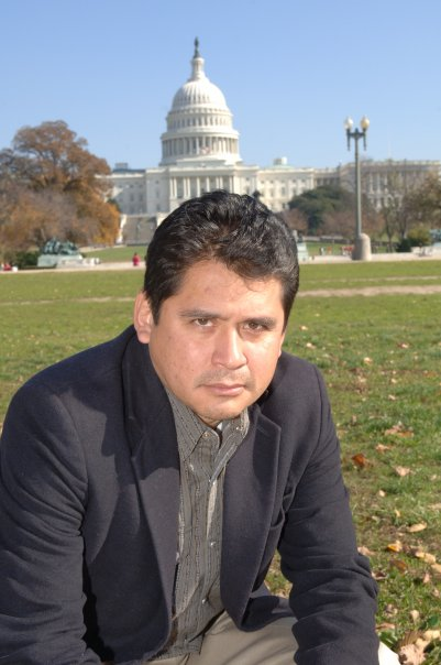 Távara on November 23, 2007